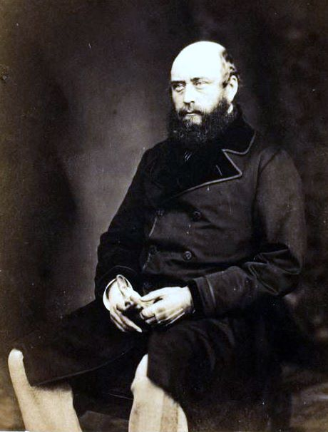 George, Duke of Cambridge (1819-1910), Field Marshal; Crimea, 1855. Thinly albumenized print, from a collodion wet plate negative